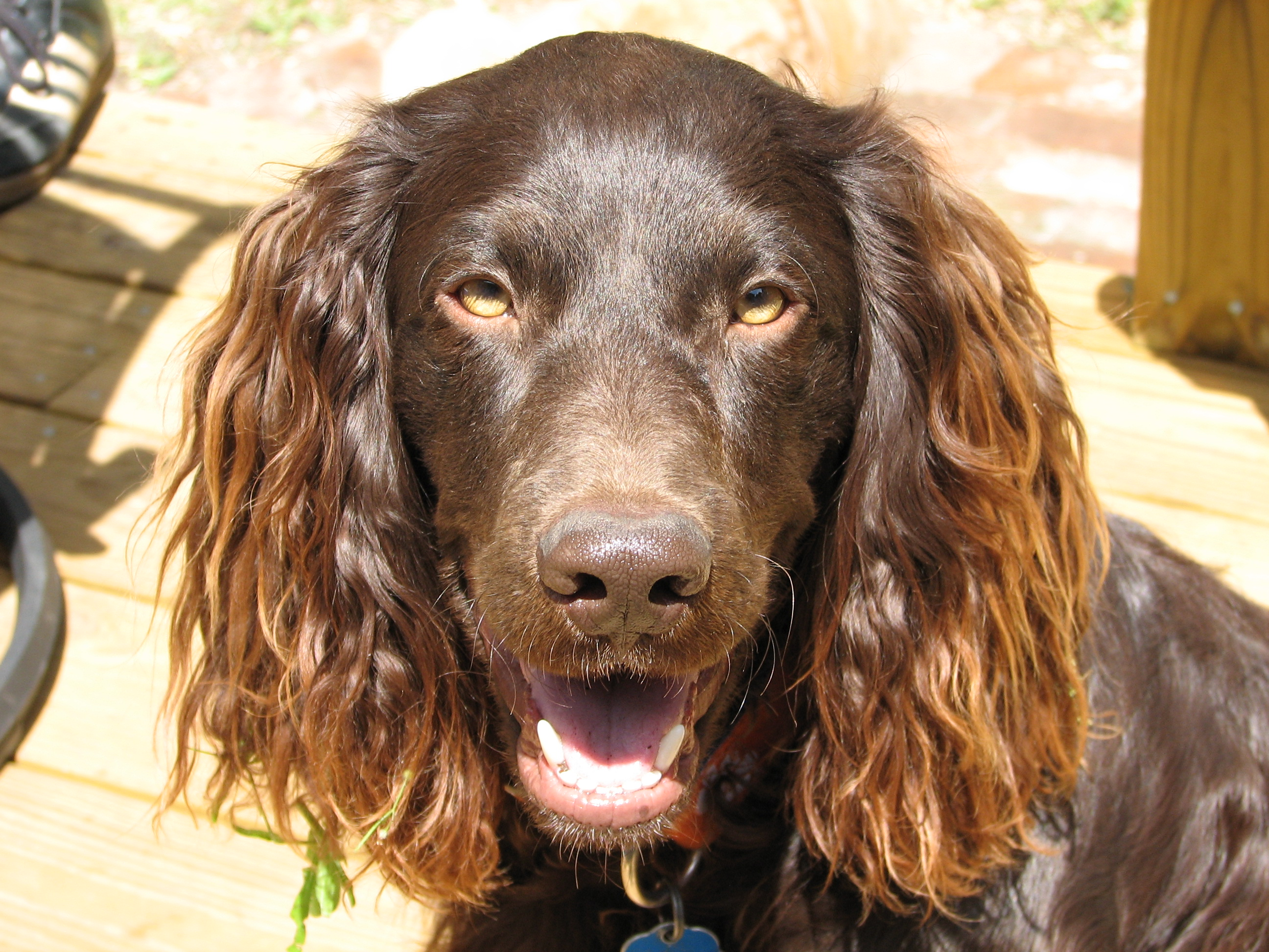 Mature Boykin Spaniel